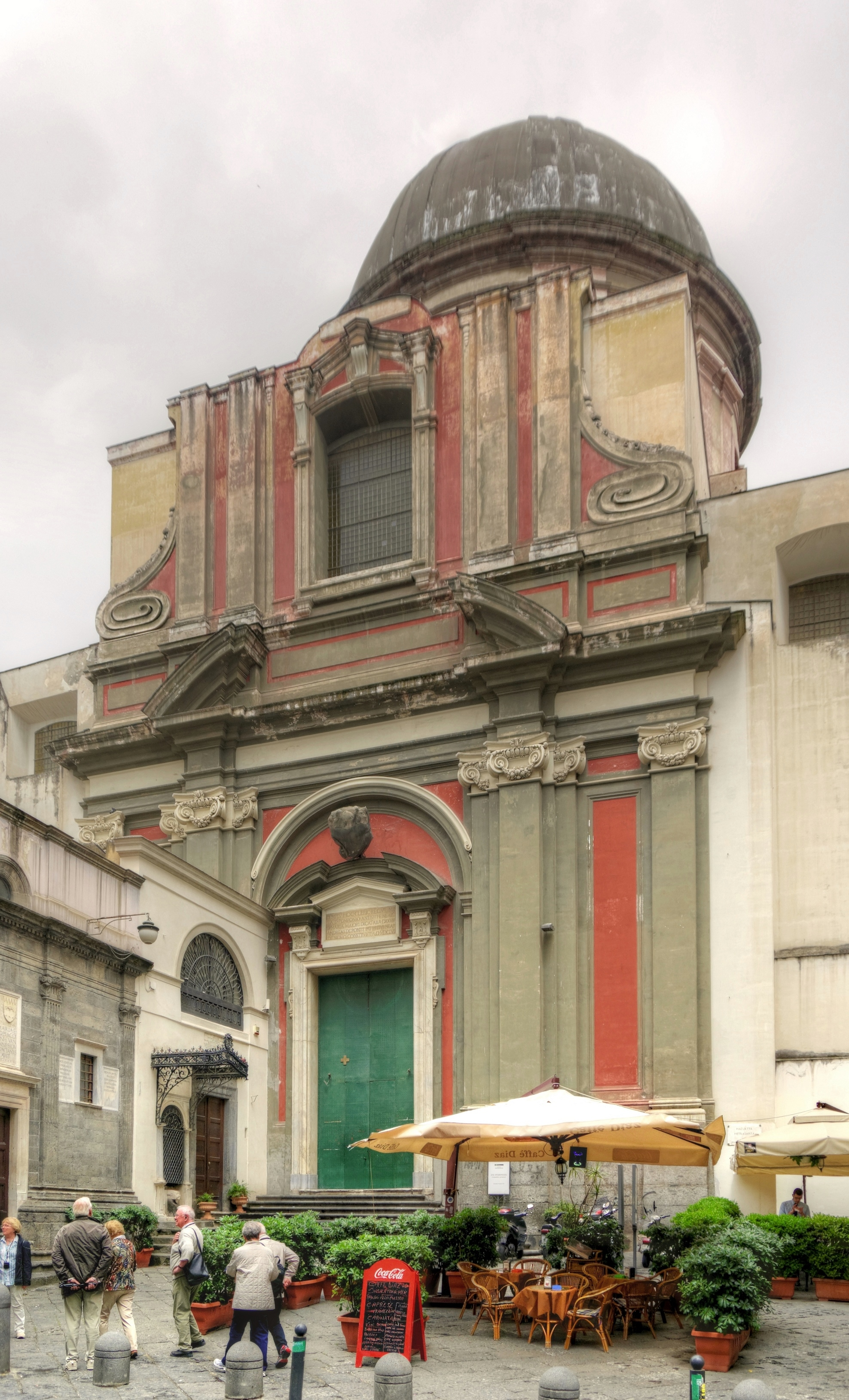 Naples, Santa Maria Maggiore alla Pietrasanta